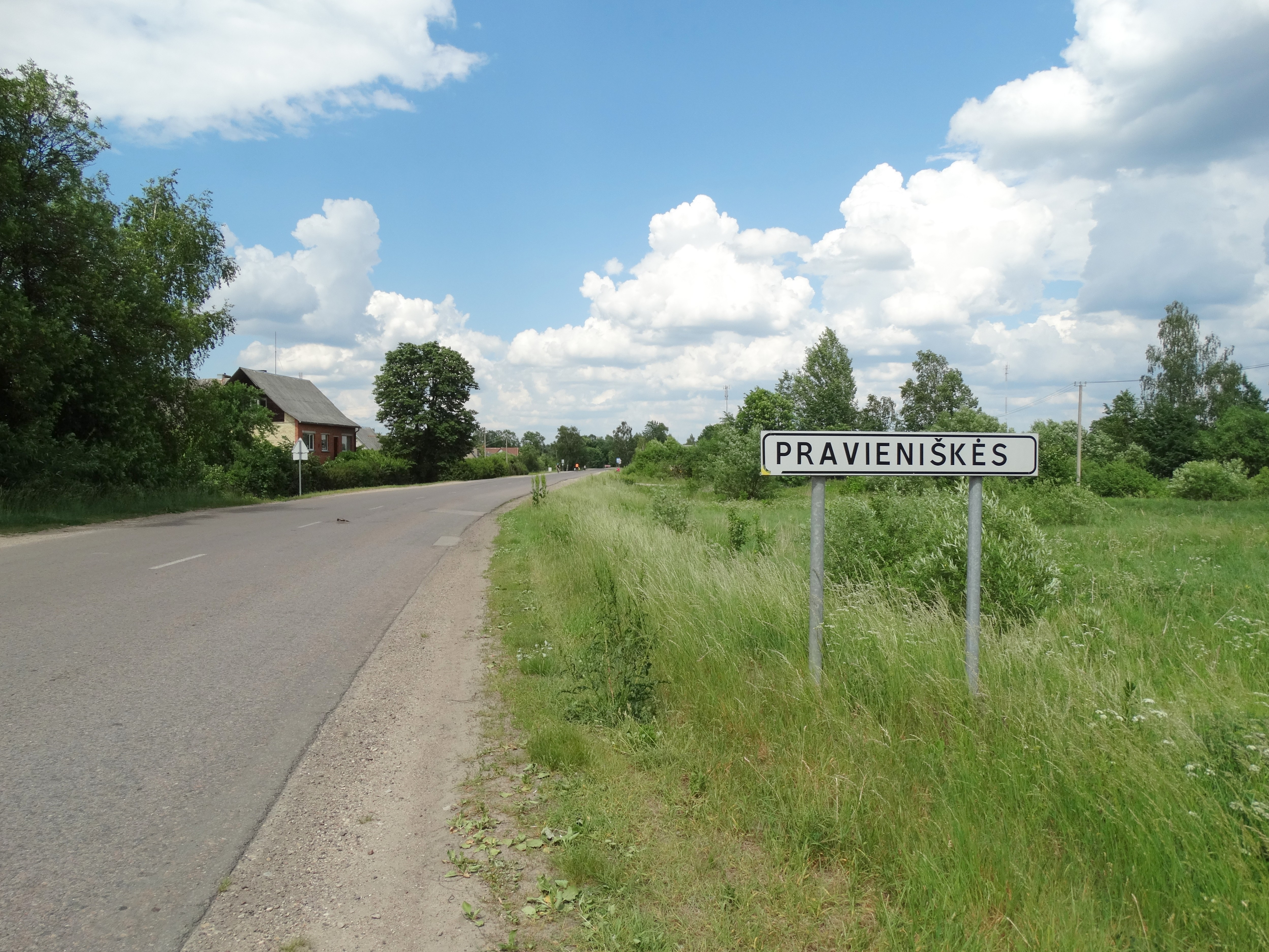 Pravieniškės, Kaišiadorys District, Lithuania